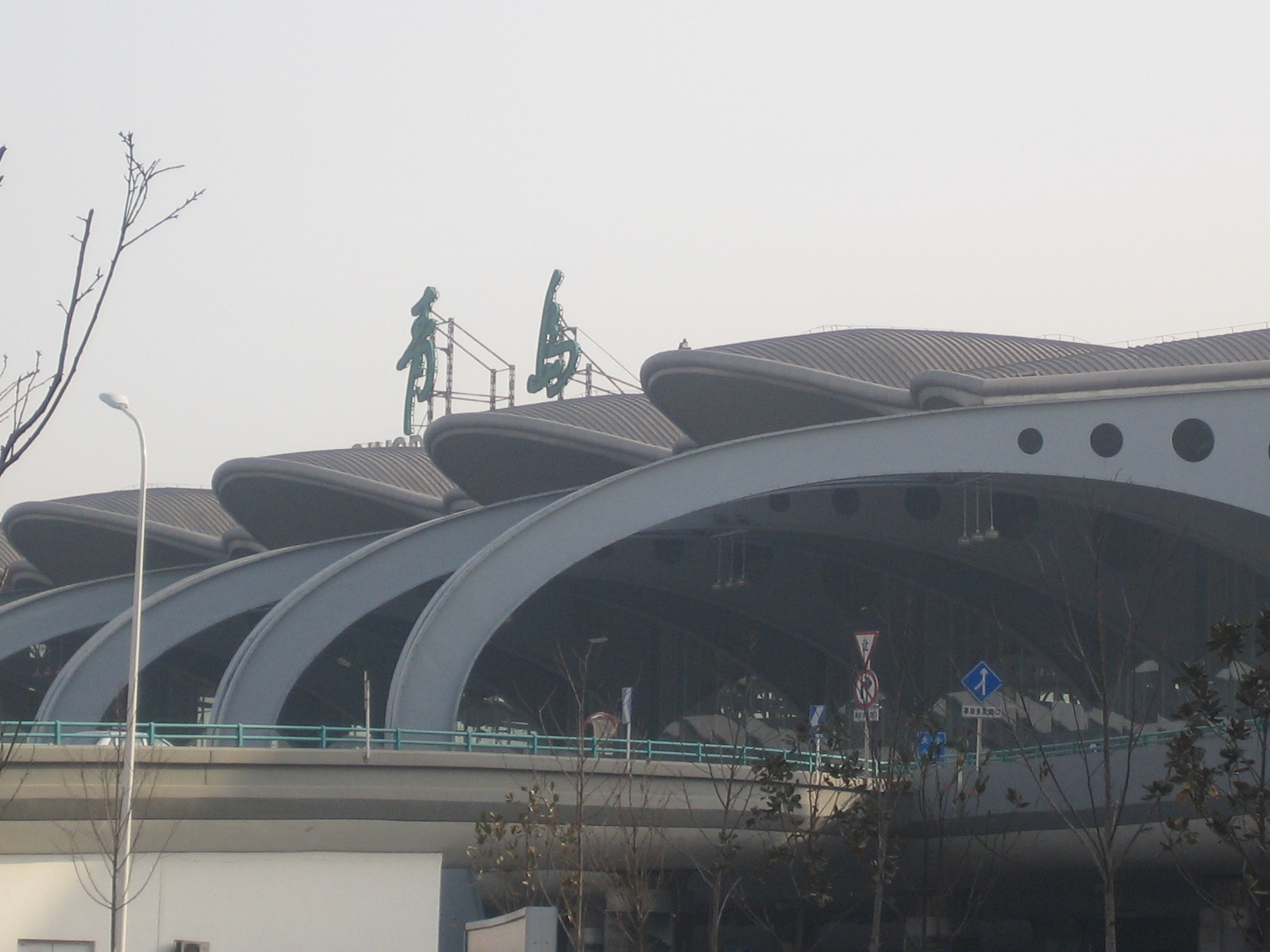 A view of Qingdao Liuting International Airport